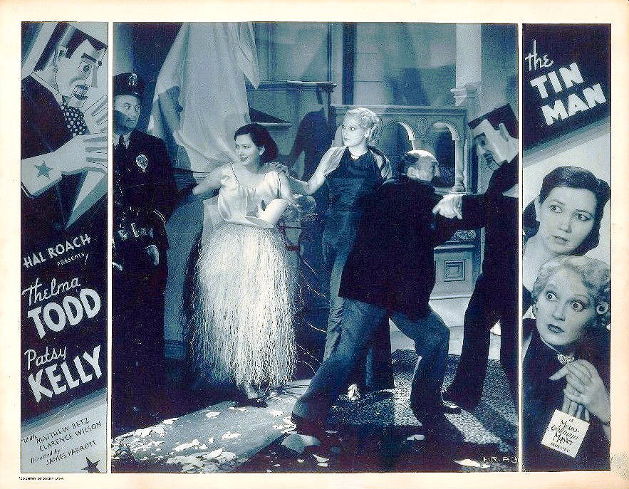 Lobby card from the 1935 short film The Tin Man.